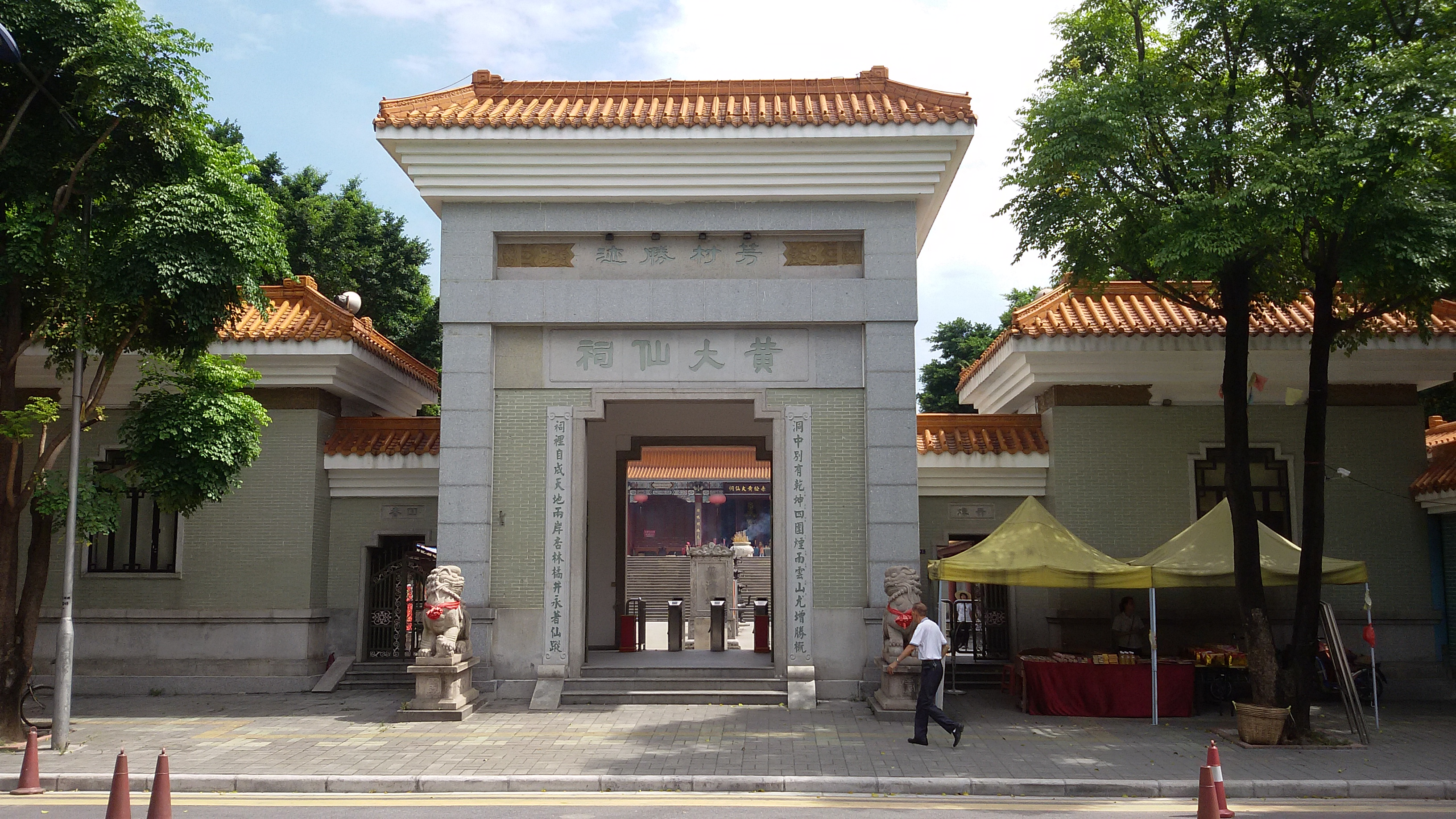 South Dorr for Wong Tai Sin in Guangzhou